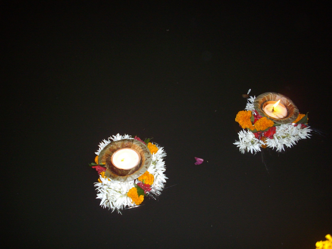 Floating lights. "Diya's (Wick Lamps)" set free to float on river ganges on the occasion of Dev Deepavali on Karthik Purnima.